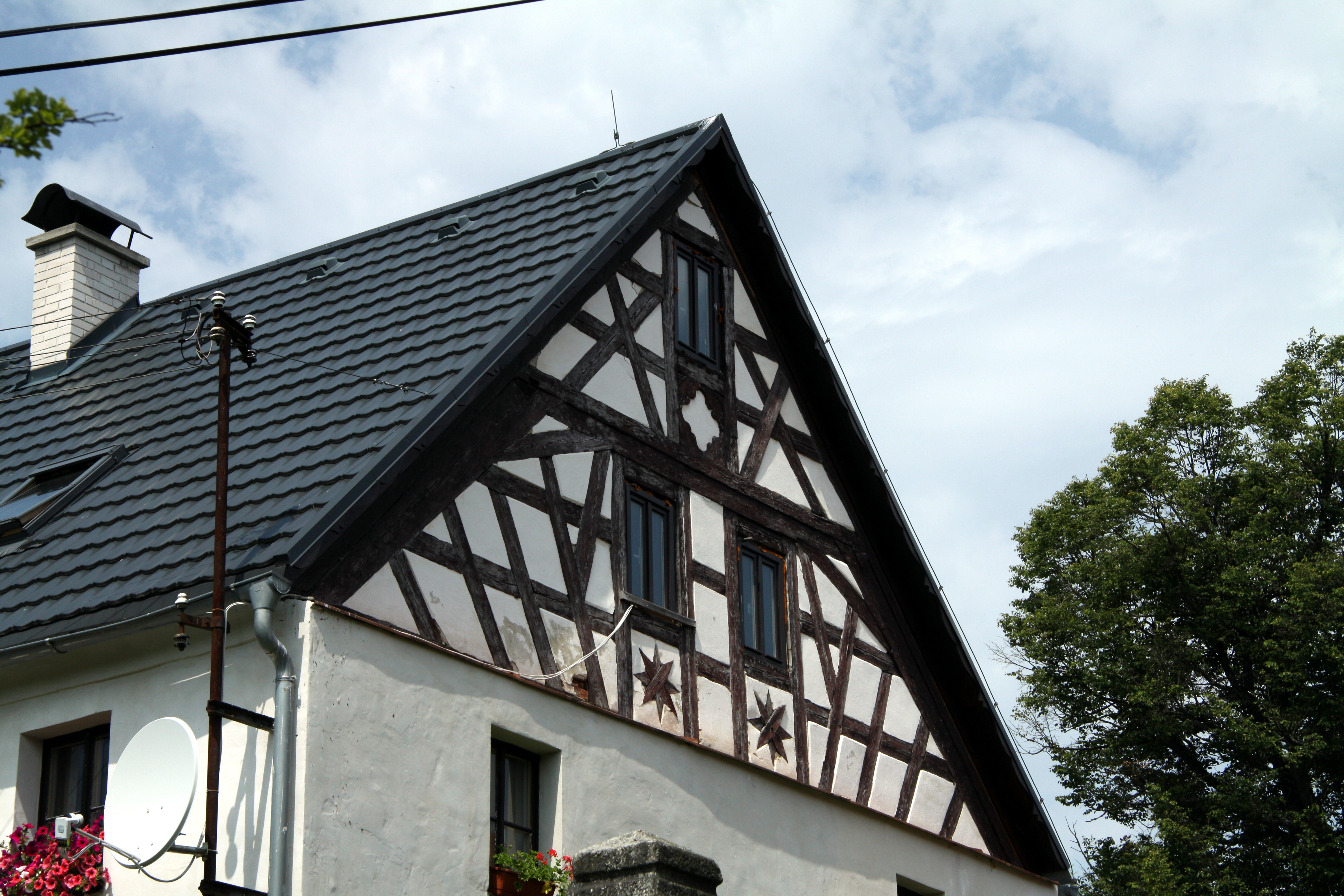 Building in Prameny village in Cheb District, Czech Republic